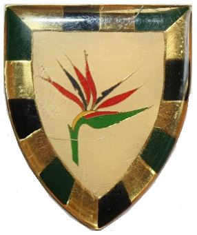 SADF 6 SAI emblem